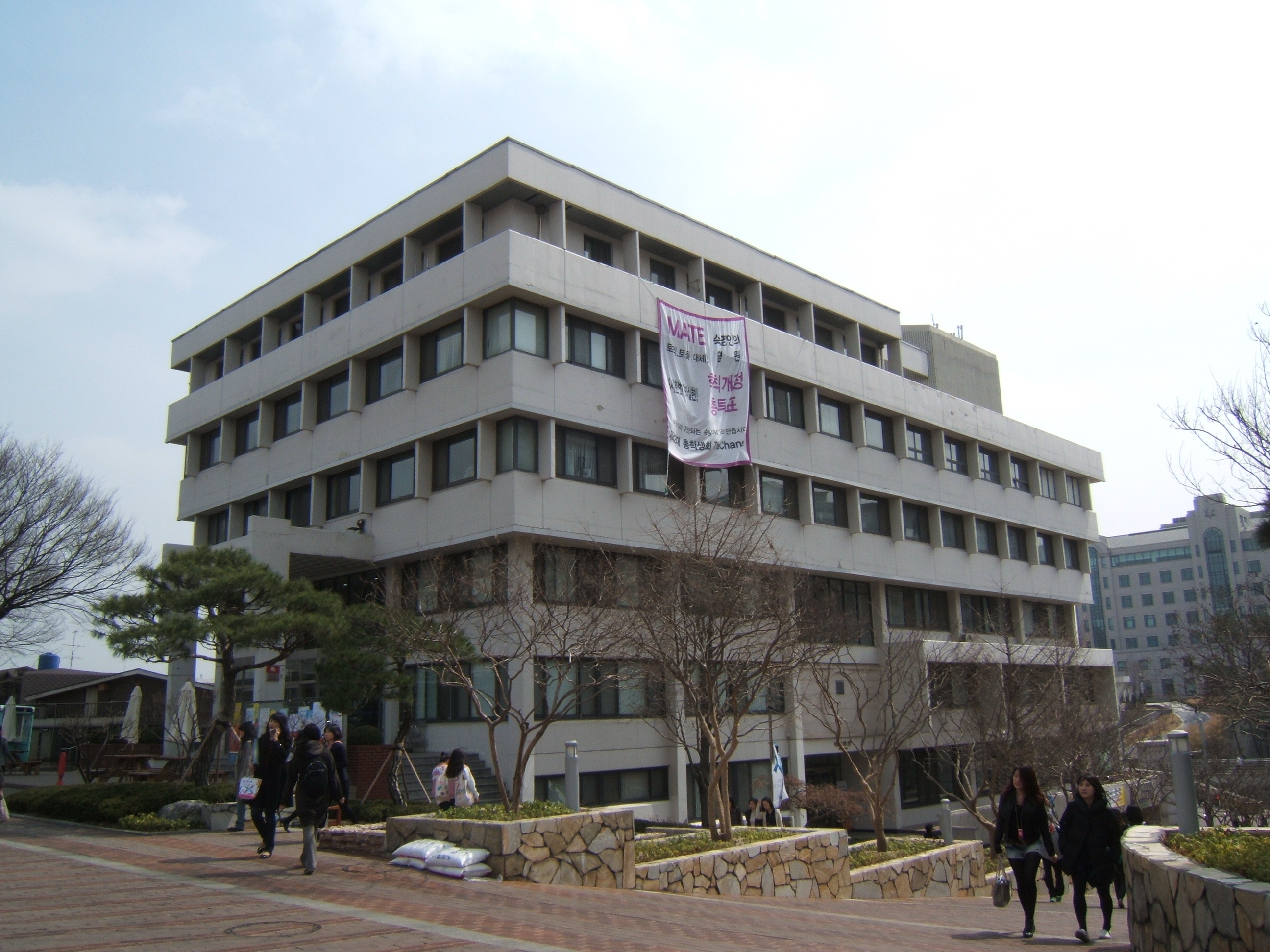 Student Union Building at Sookmyung Women's University